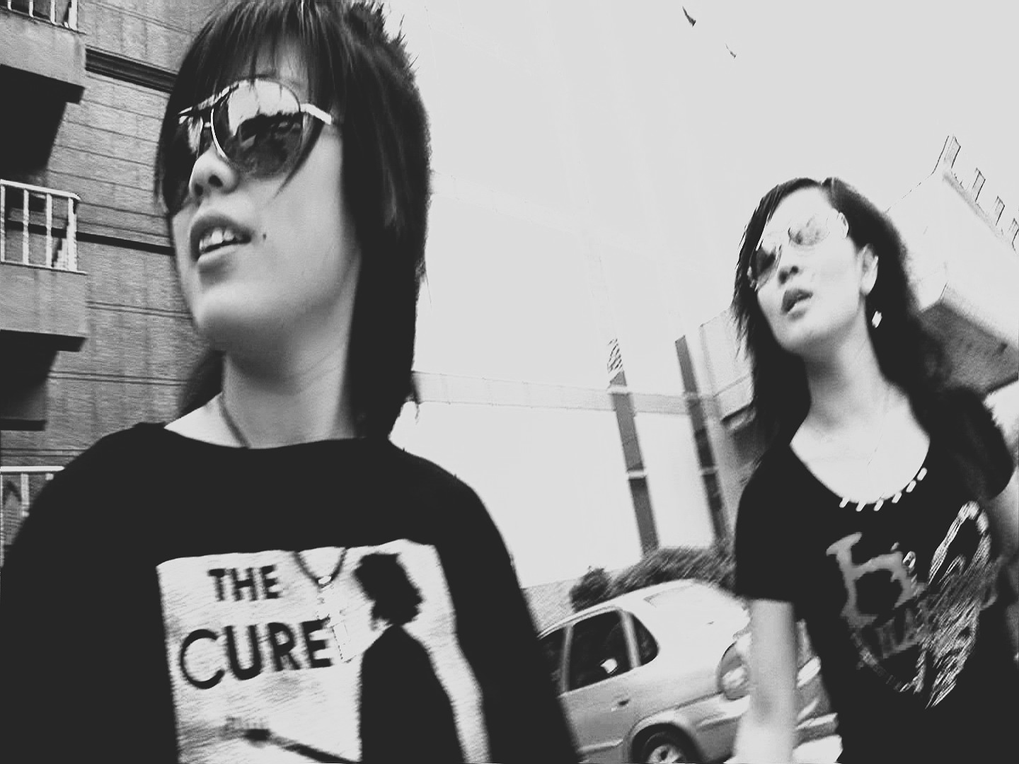 Poster Photo for Super, Girls!